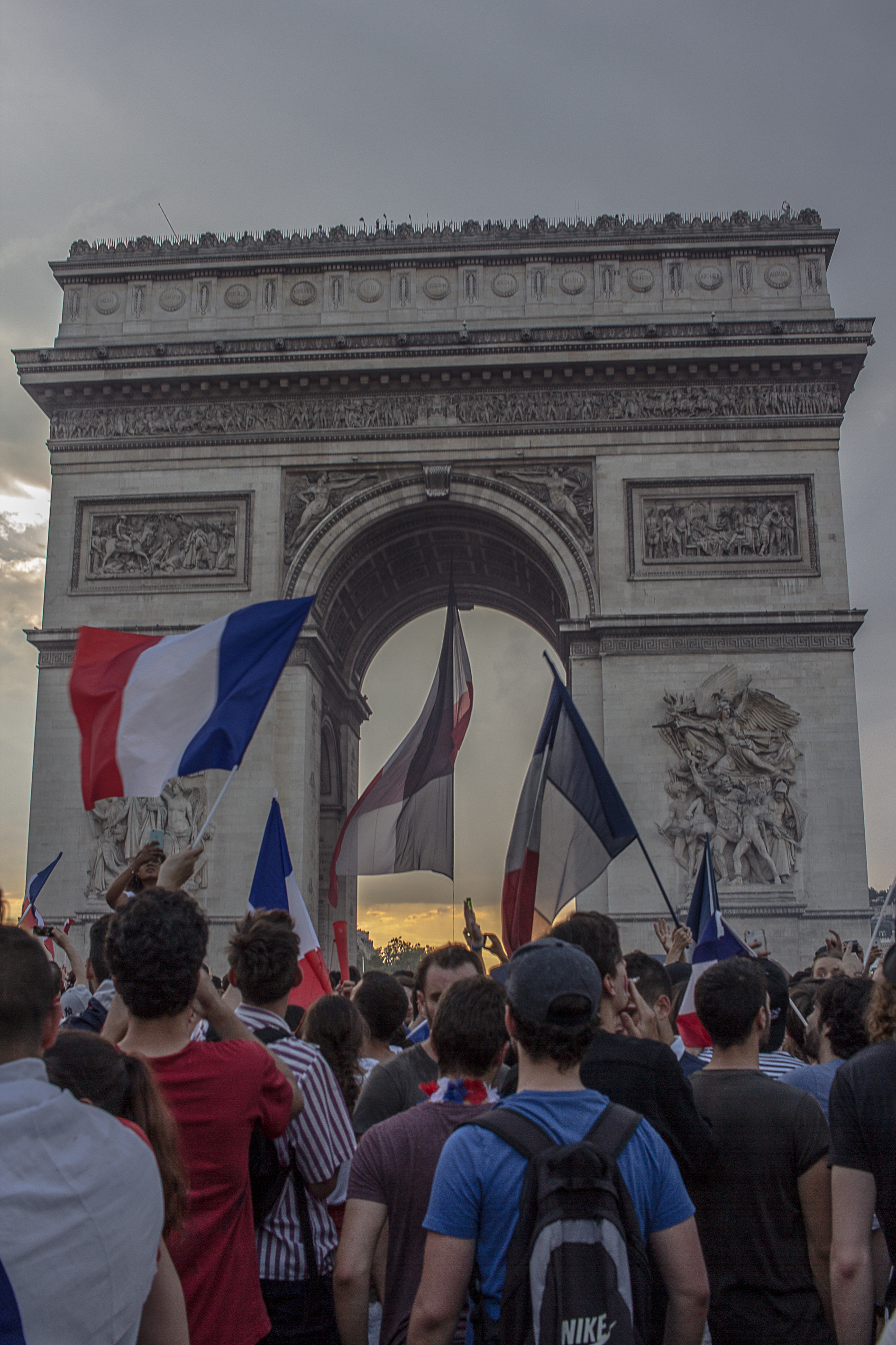 World Cup Paris